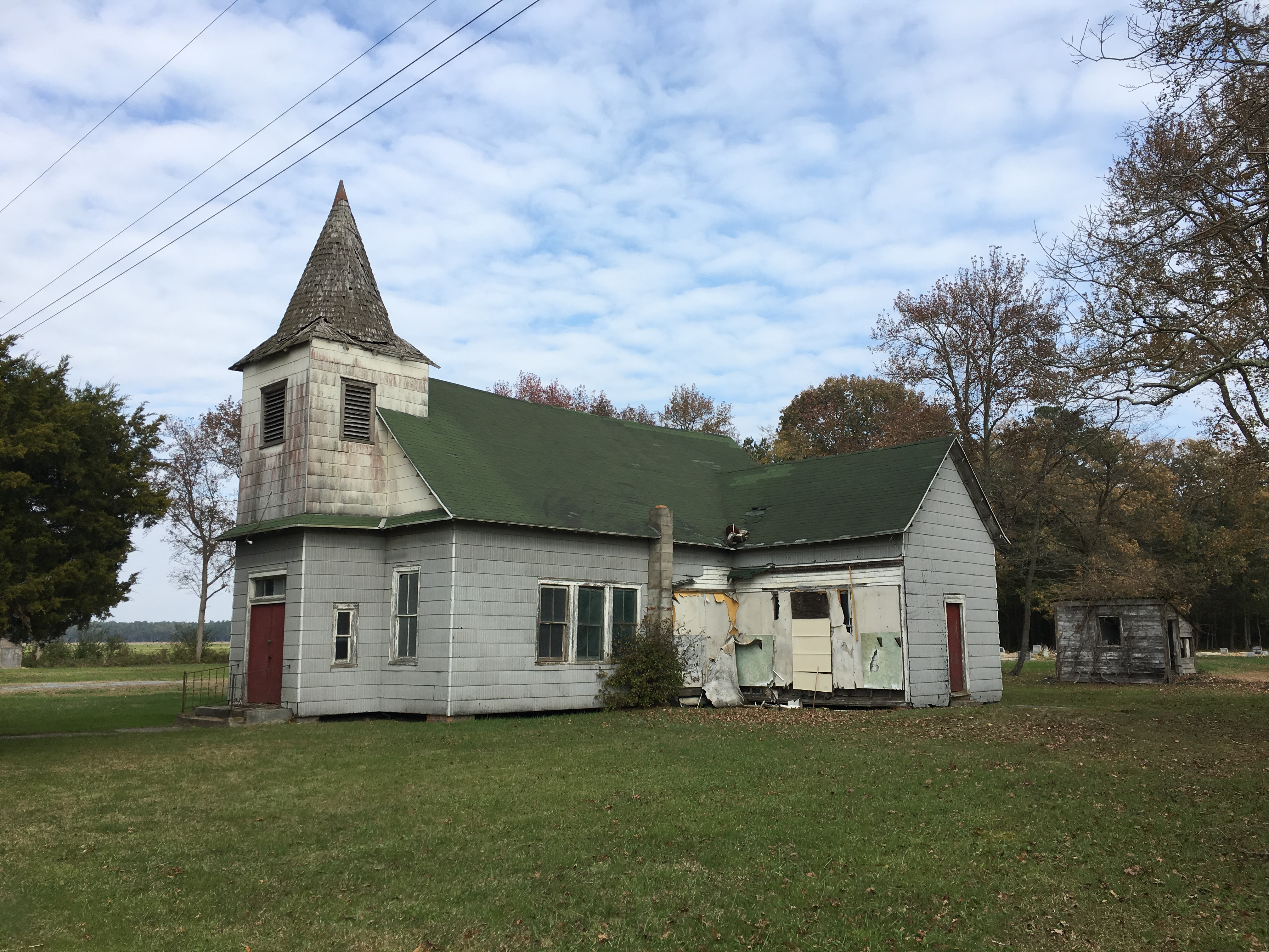 A view of the exterior of Malone's Church from the southwest. The Malone’s Church property was built in the 1890s and includes a historic church and cemetery. Located along the Harriet Tubman Byway, the cemetery includes the final resting place of Tubman’s nephew and in-laws. The property was chosen as a Six to Fix site in 2017 and awarded a Heritage Fund grant in 2018.